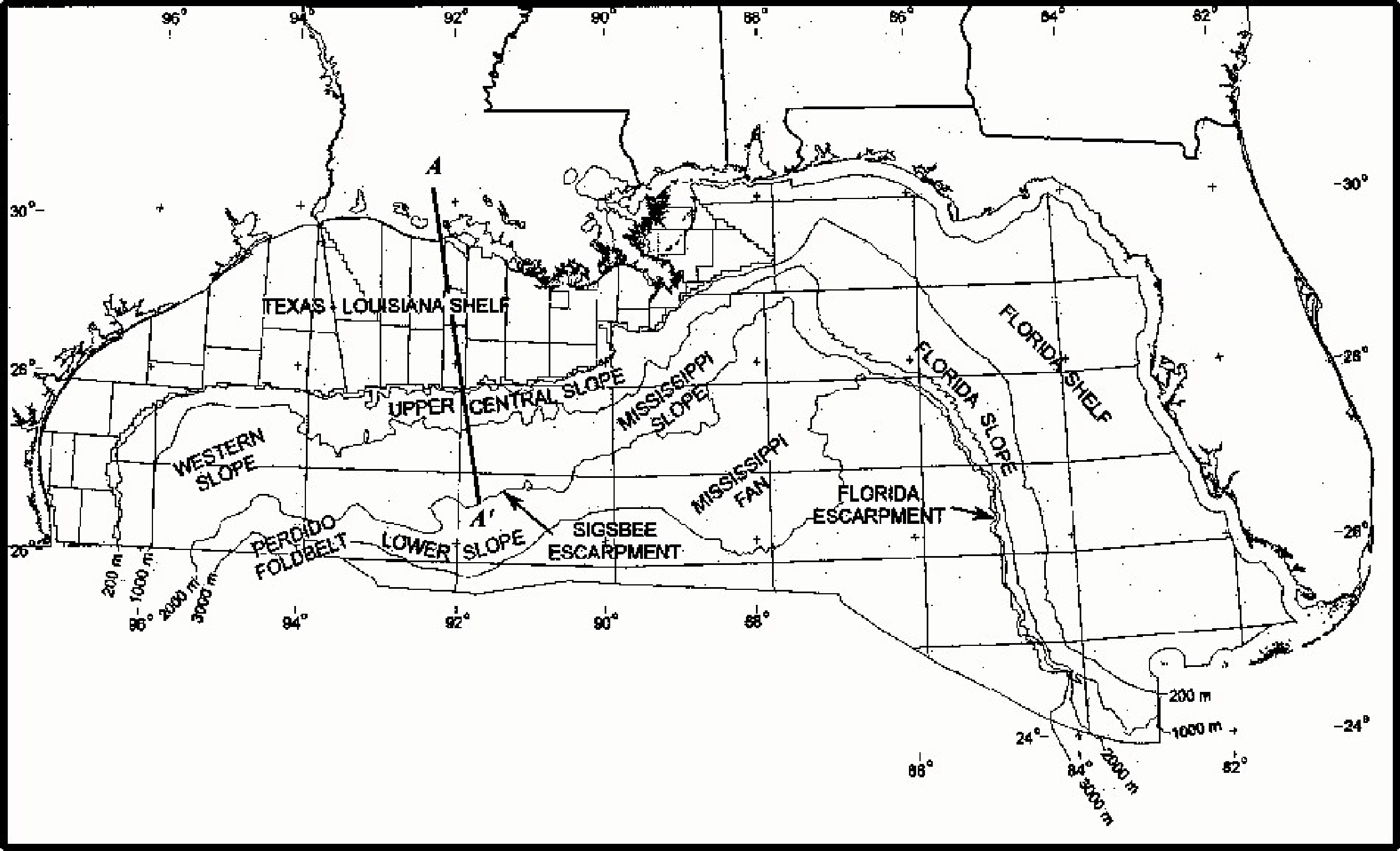 Map of northern part of Gulf of Mexico. Major physiogeograaphic features of the northern part of Gulf of Mexico outer continental shelf.